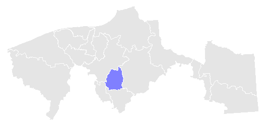 Jalapa, Tabasco. Hecho con Microsoft Paint